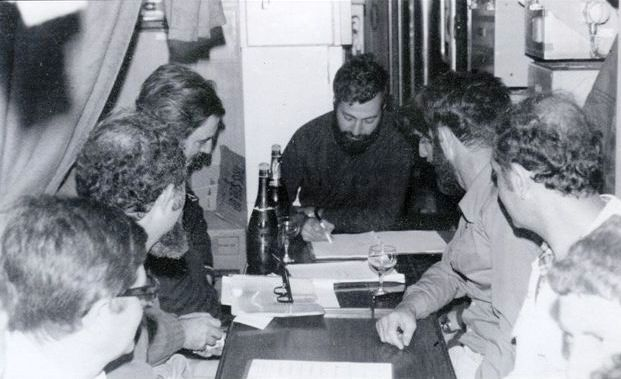 Commander Leshem sign for the Submarine INS Gal hereby delivered from Vickers Shipyards to the IN